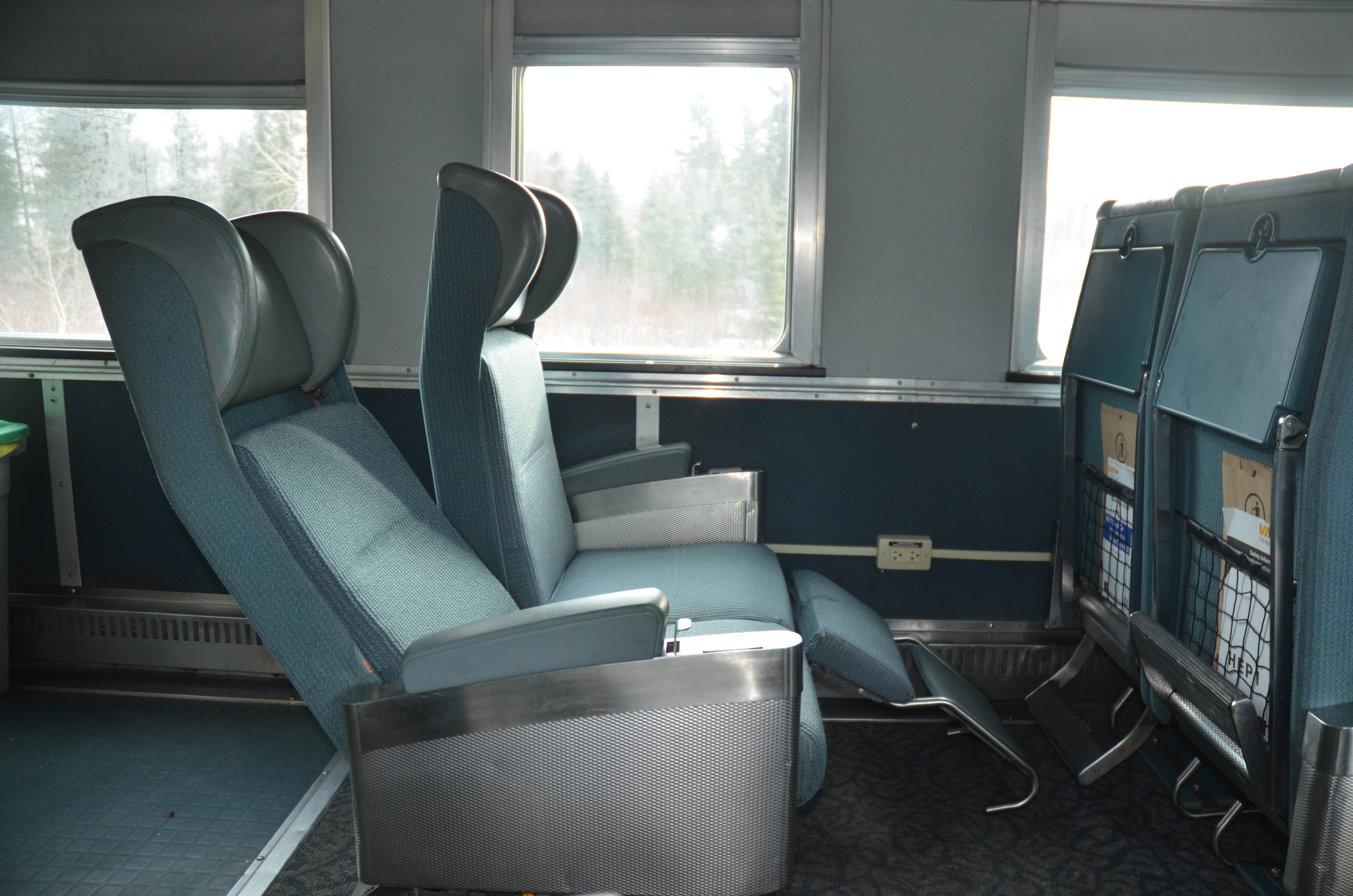 Coach seats on Via Rail long distance trains.